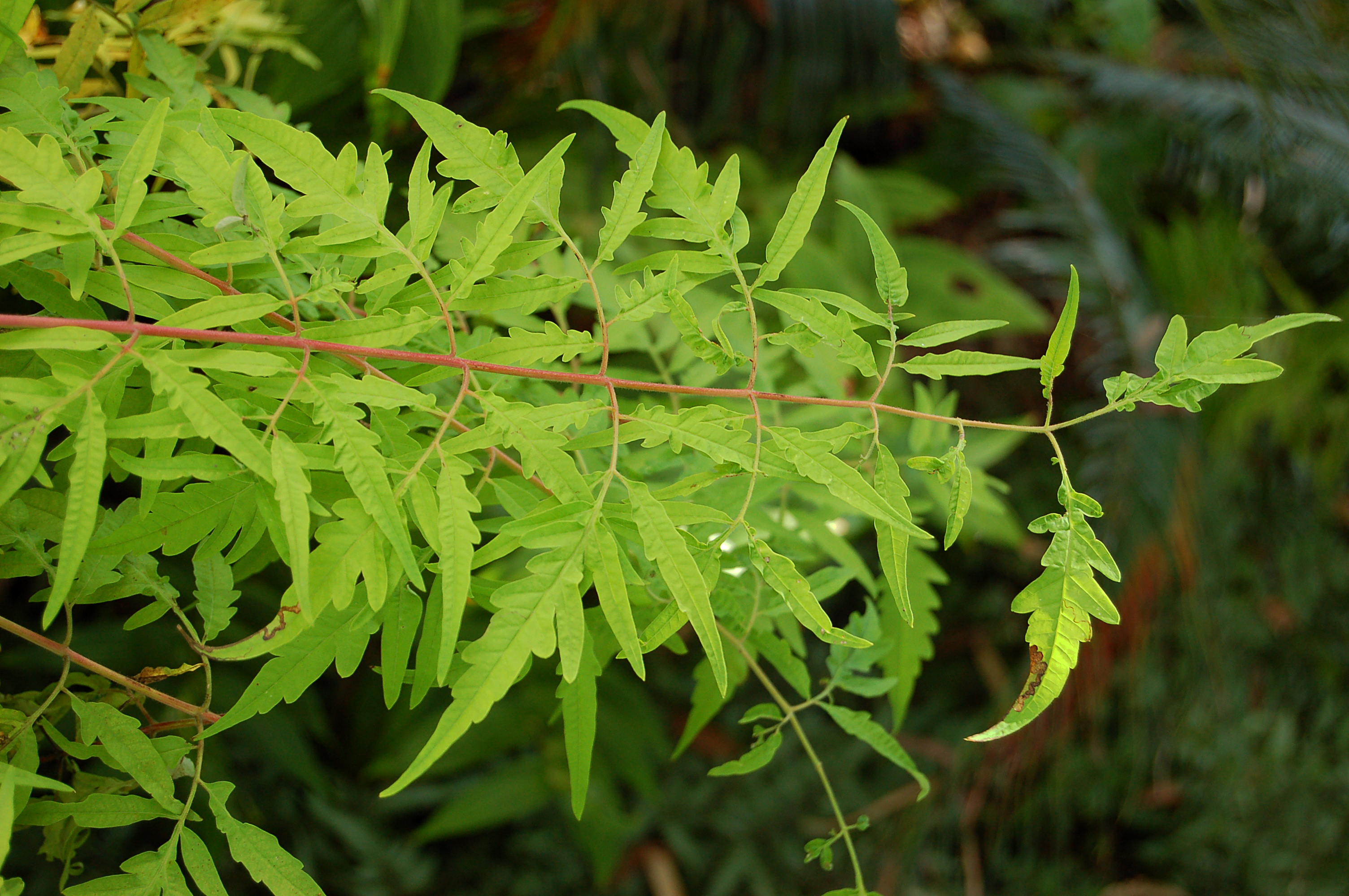 A picture the leaves of the Rhus typhina en 'Tiger Eyes' plant. Photo taken at the Chanticleer Garden where it was identified.